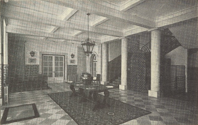 Atrium inside the Sanatório das Penhas da Saúde (Penhas da Saúde Sanatorium), near the city of Covilhã, in Portugal. This image was published in the Gazeta dos Caminhos de Ferro magazine No. 1398, of 16th March 1946, and scanned by the Hemeroteca Municipal de Lisboa.